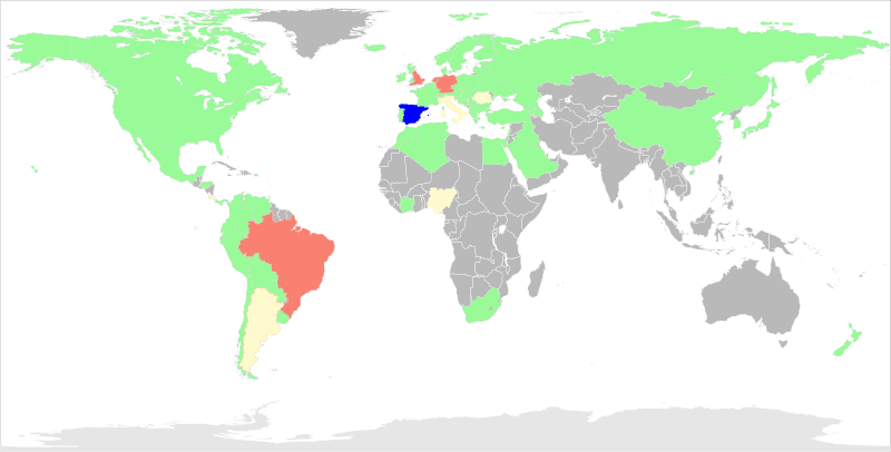 Spain against other national teams balance 2018. Changed Argentina.